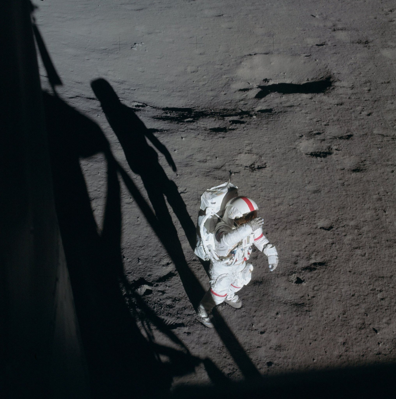 Alan Shepard during the Apollo 14 mission.